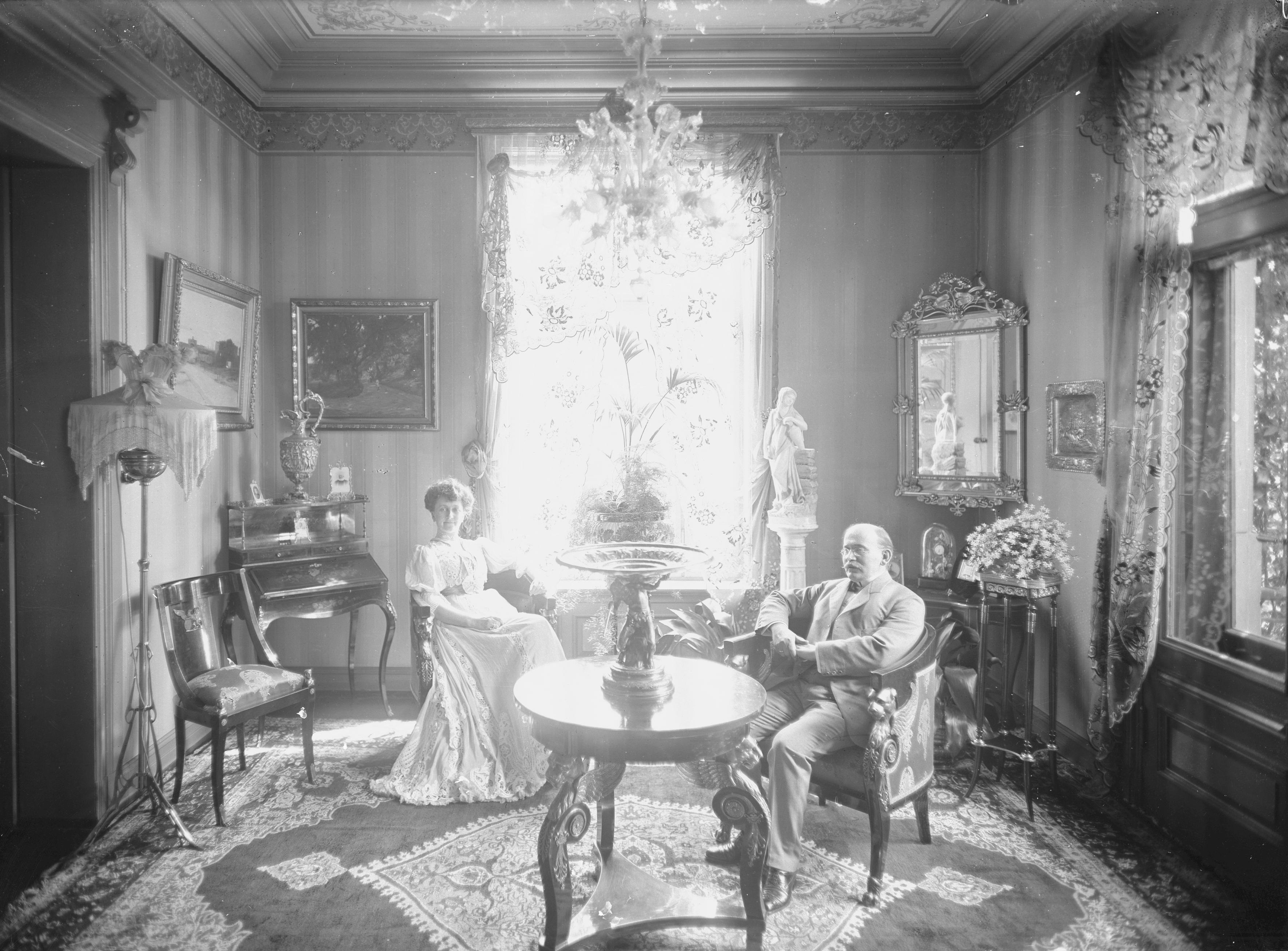 Kristian Birkeland and his wife Ida at home in the Incognitogate, Kristiania (Oslo), Norway. Norsk Teknisk Museum, Inventarnr. NTM UWP 08659